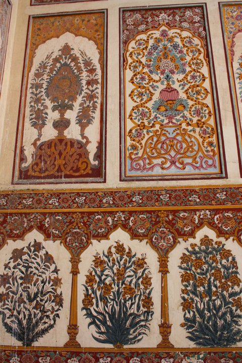 Badshahi Mosque (King’s Mosque) This is a photo of a monument in Pakistan identified as the PB-44